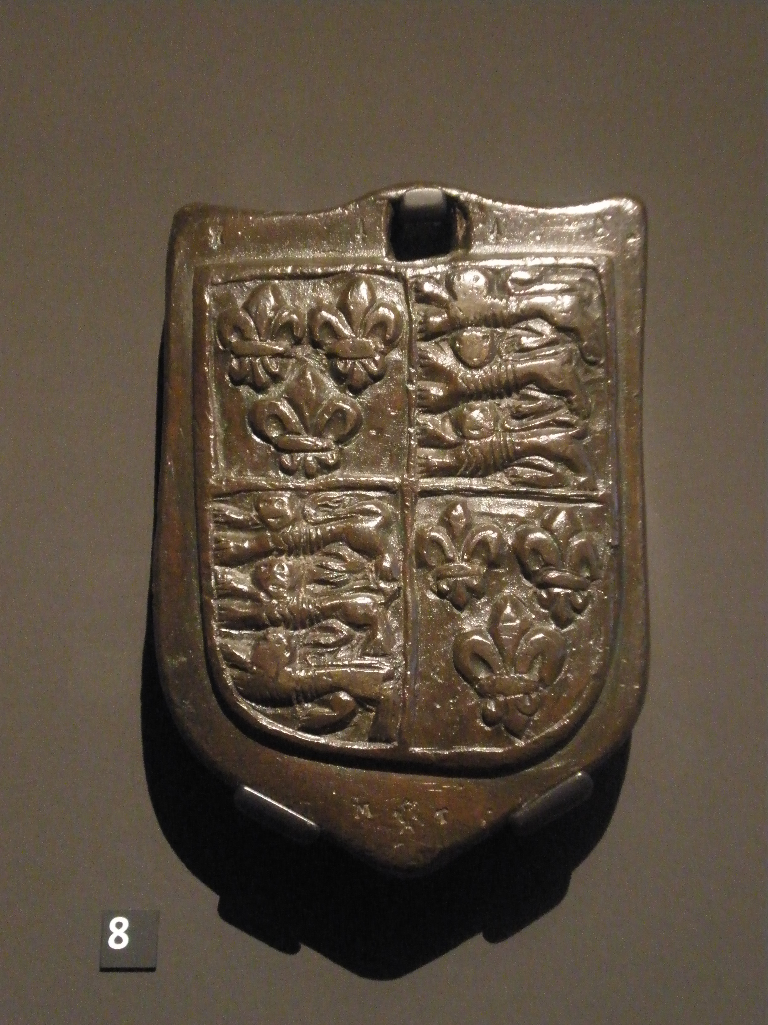 Wool Weight with the Royal Arms of England 1550-1600; England; Bronze, cast By the middle of the 16th century, England had established itself as a major European producer of woollen cloth. Wool from England was thought to be the finest available. Special decorative weights were used to weigh it. Wool weights had holes or loops with which to attach a leather strap so that they could be slung over a beam and counter-balanced with an equivalent weight of wool. Wool weights were made as 7, 14 and 28 lb weights (i.e., ½-, 1-, and 2-stone weights). This particular weight weighs 14 pounds or 1 stone. Shield-shaped wool weights survive from the reign of Henry VII onwards. This example shows the Royal Arms of England. Lt. Col. G. B. Croft-Lyons Bequest Collection ID: M.962-1926 This photo was taken as part of Britain Loves Wikipedia in February 2010 by David Jackson.